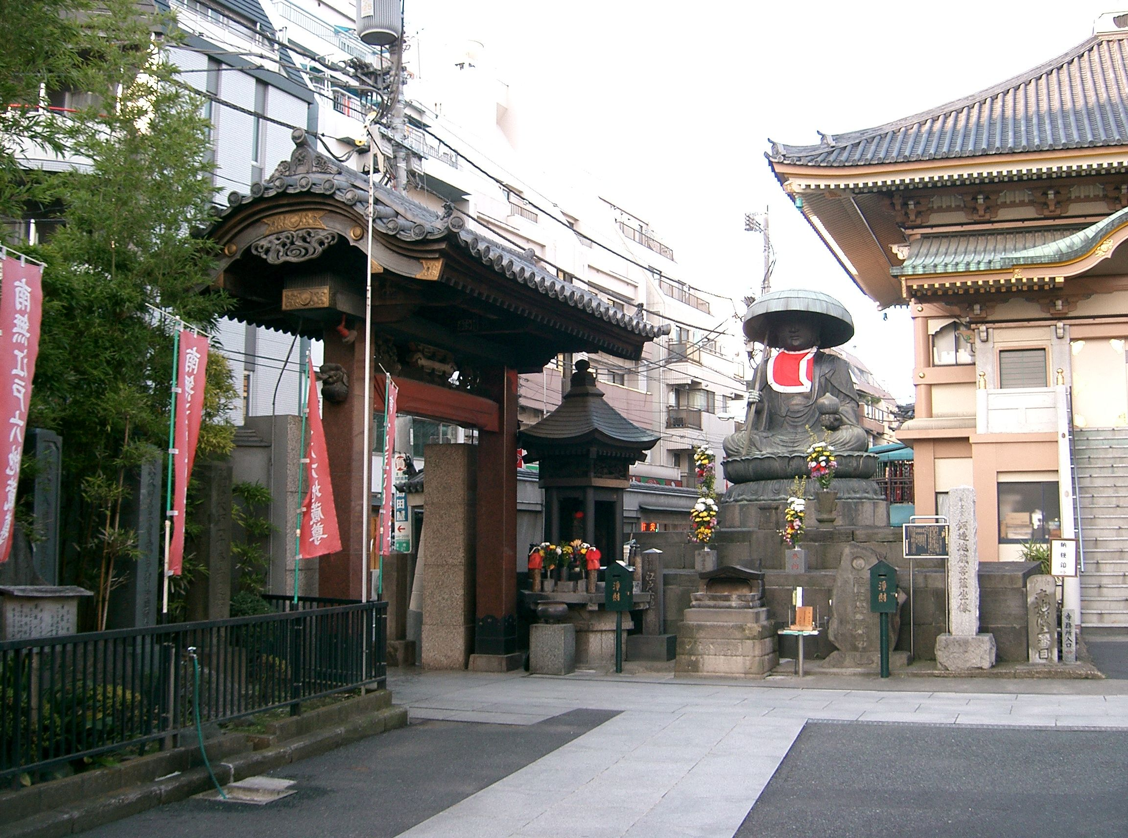 Jizo-Bosatsu (Ksitigarbha) at Shinshō-ji temple in Toshima-ku, Tokyo